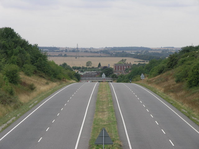 Lonely Biker. A few seconds earlier and this section of the A631 was full of cars. At this point in time only a single motorbike was climbing the hill out of the Trent valley.